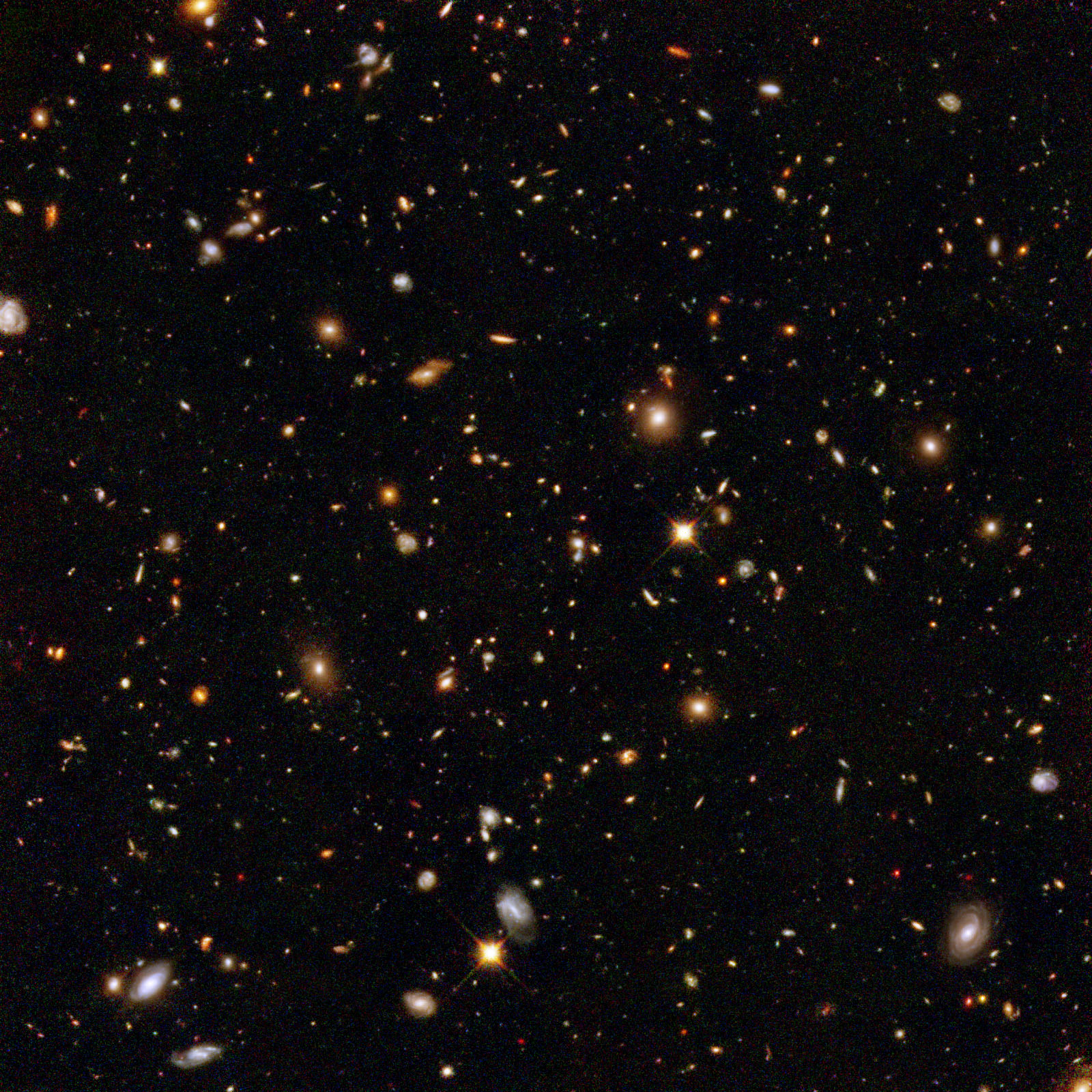 The Hubble Ultra Deep Field in the infrared, imaged by the NICMOS instrument